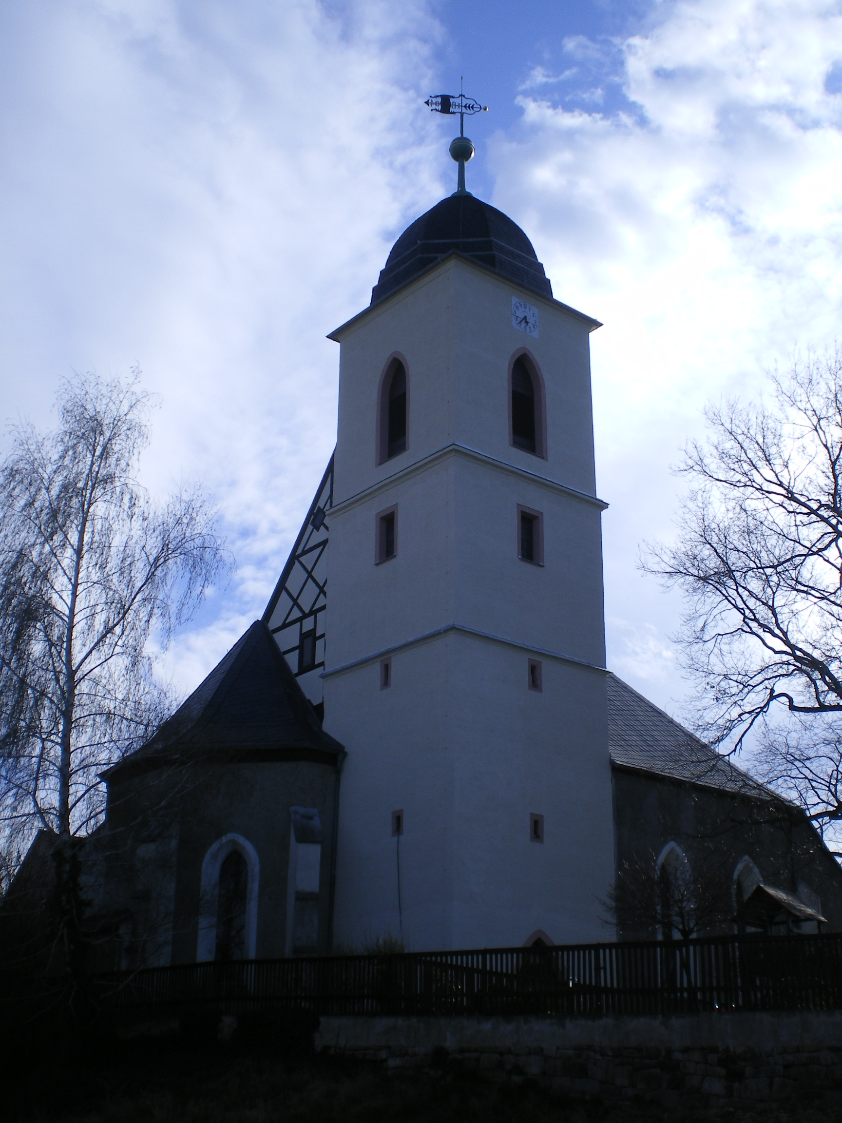 This picture shows the church in Zschernitzsch, a district of Altenburg in Landkreis Altenburger Land/Thuringia (Germany).